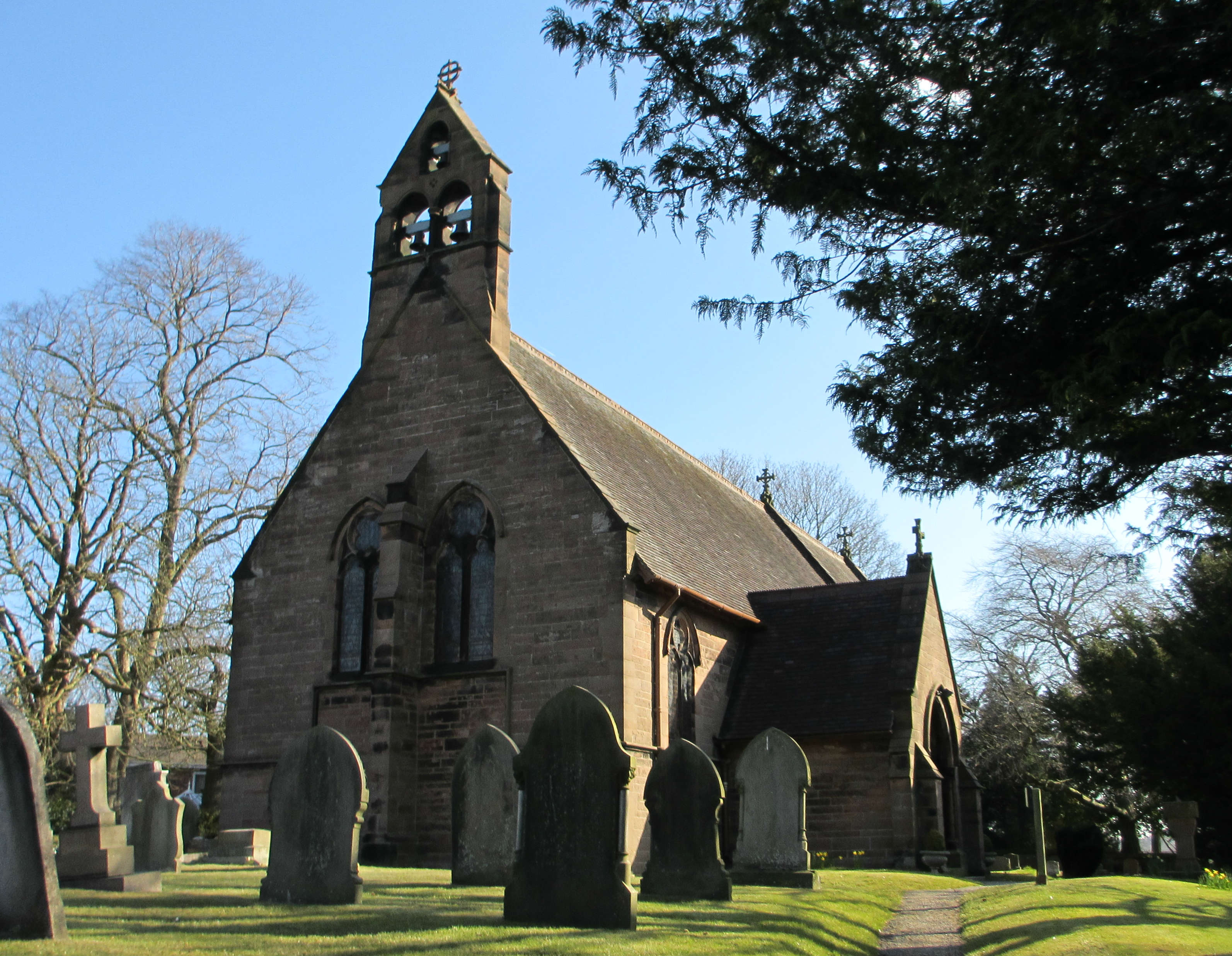 Christ Church parish church, Crowton, Cheshire, seen from the southwest